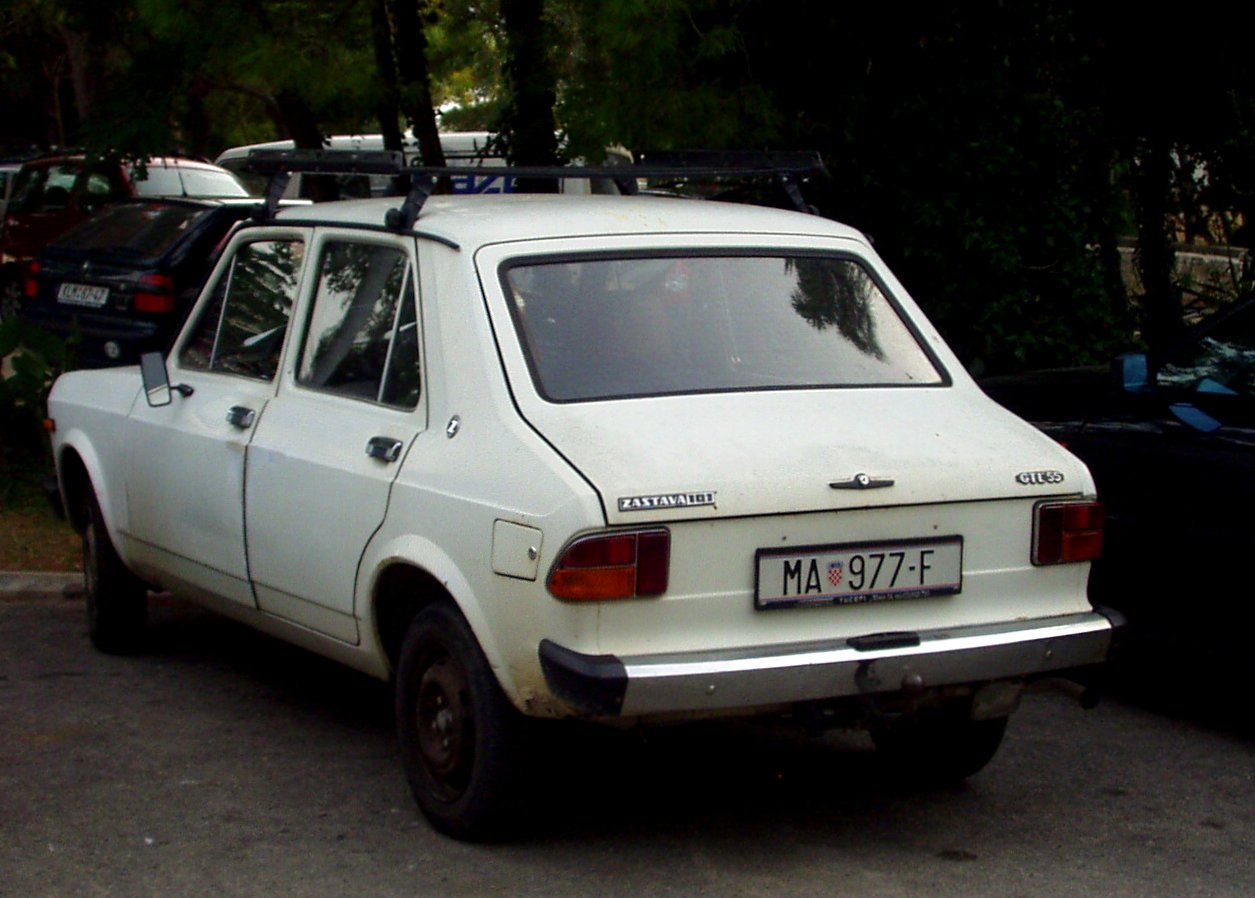 Zastava 101 GTL 55 saloon - this car was based on a FIAT 128.